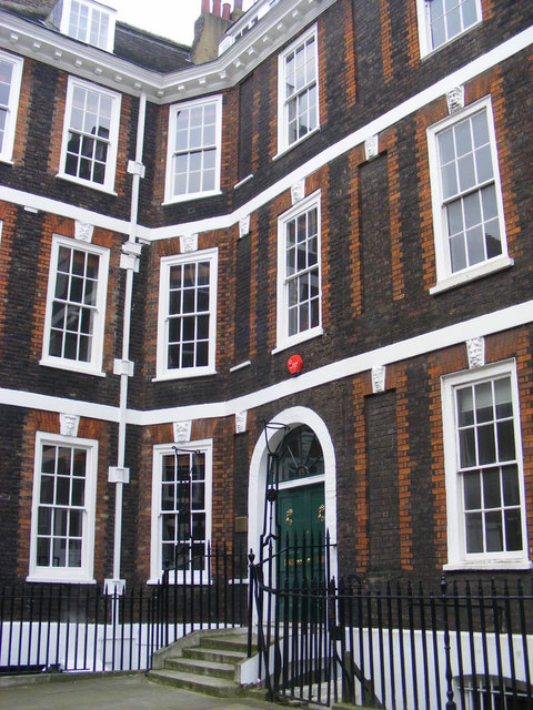 15 Queen Anne's Gate This 'L' shaped house marks the SE corner of what was Queen Anne's Square built c 1704